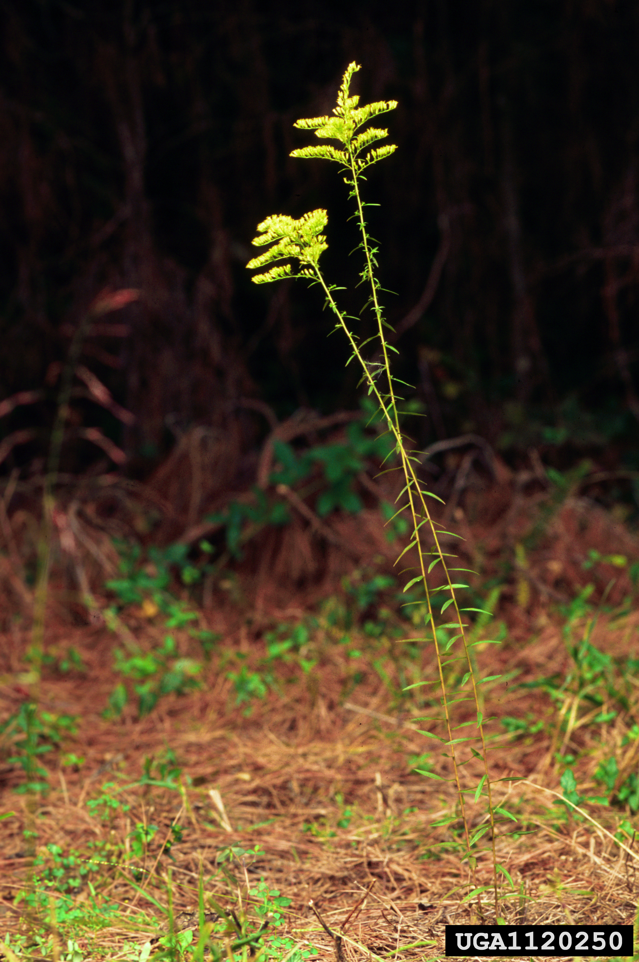 Solidago odora, September, USA